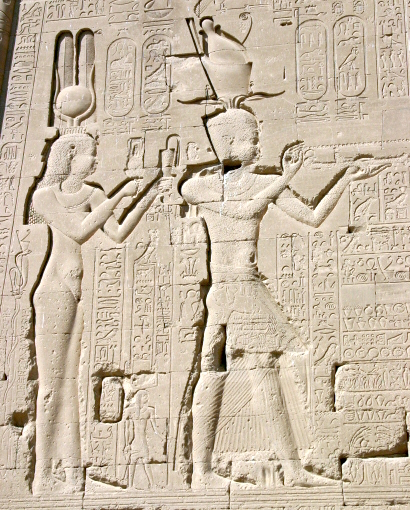 Temple of Denderah. Back wall where can be seen : Cleopatra and her son, Cesarion Image taken by Alex Lbh in April 2005